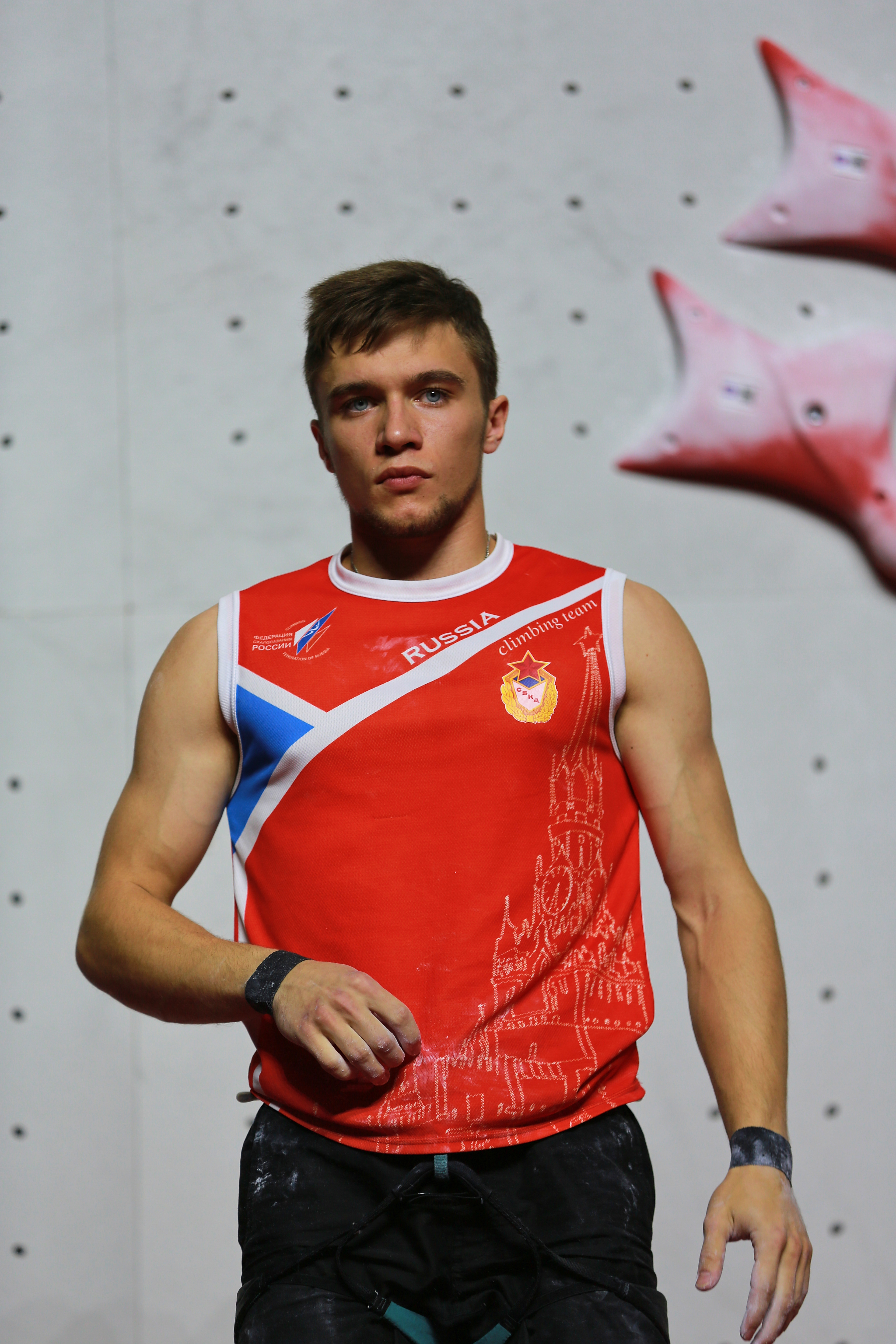 Climbing World Championships 2018 Speed Quarterfinals